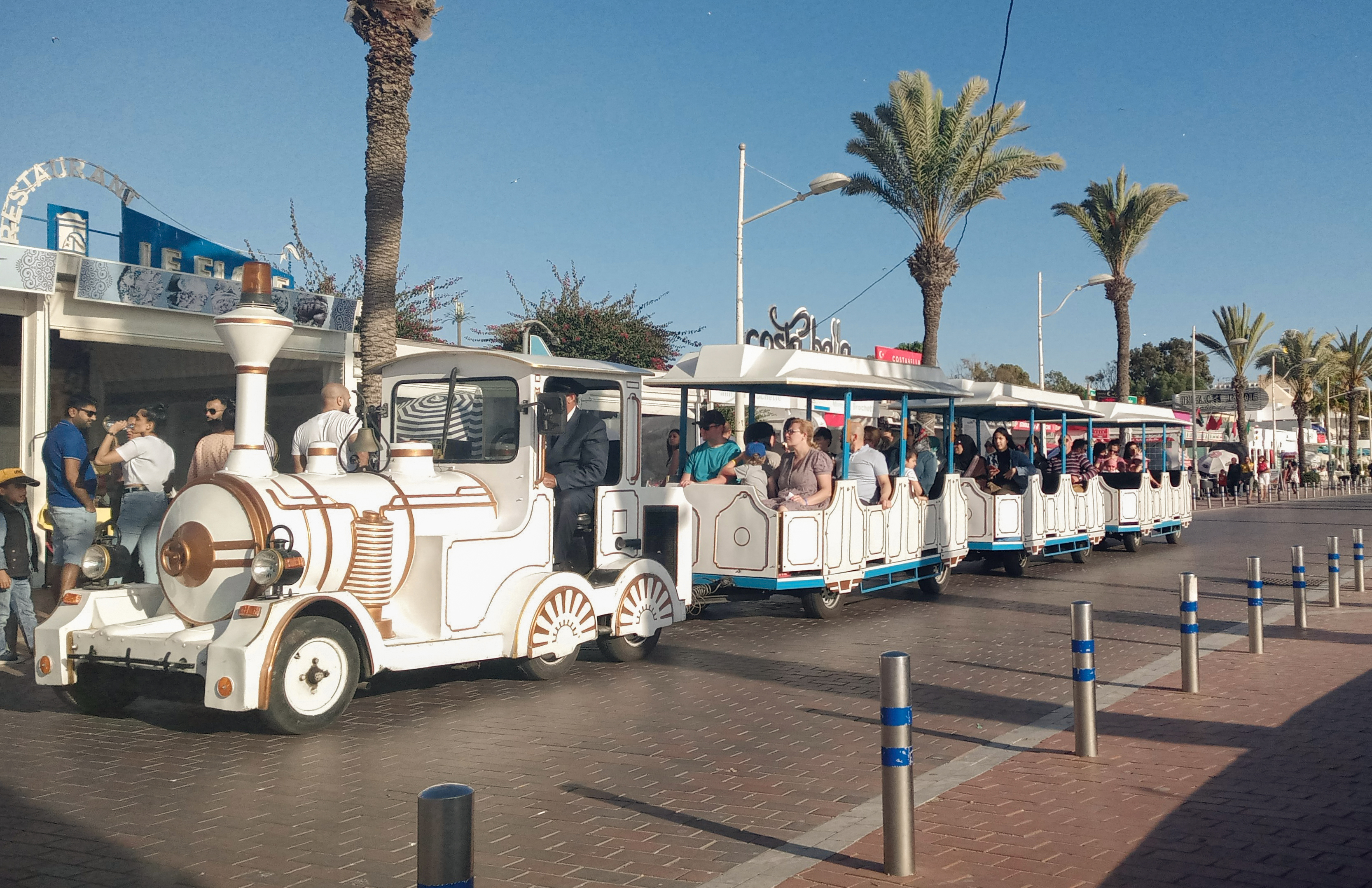 Agadir Petit Train This is an image with the theme "Africa on the Move or Transport" from: Morocco